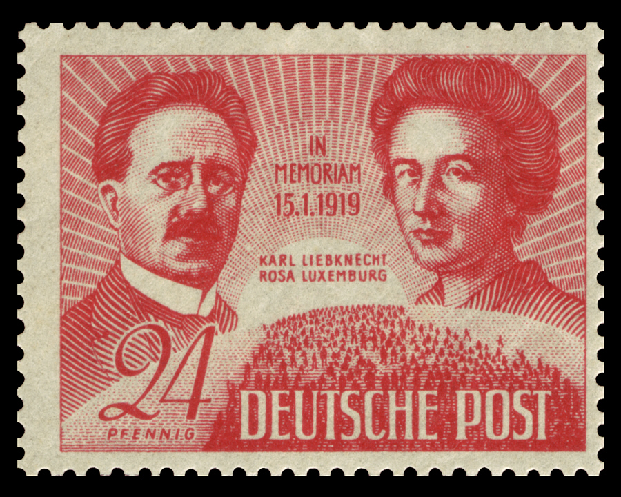 30th day of death of Karl Liebknecht (1871—1919) and Rosa Luxemburg (1871—1919) Ausgabepreis: 24 Pfennig First Day of Issue / Erstausgabetag: 15. Januar 1949 Michel-Katalog-Nr: 229 (Alliierte Besatzung - Sowjetische Zone - Allgemeine Ausgaben)